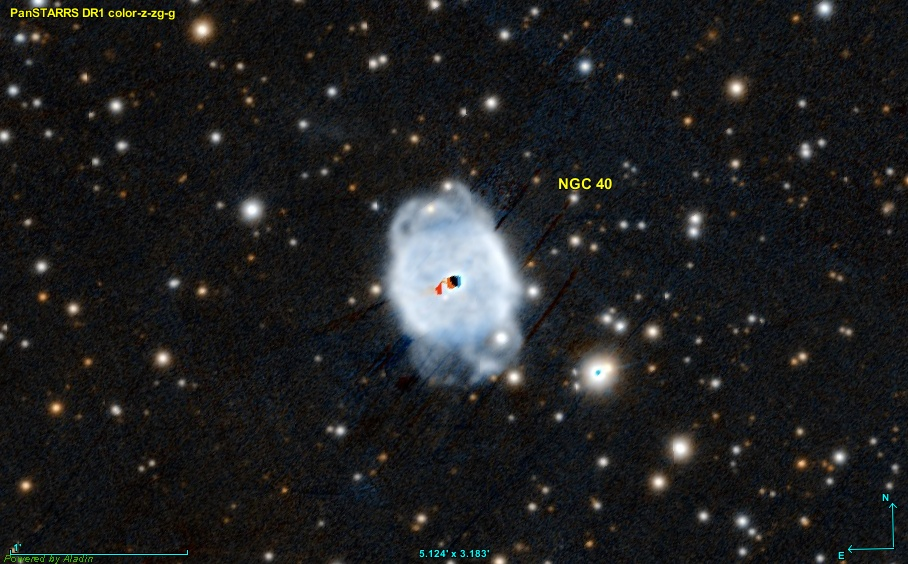 Image created using the Aladin Sky Atlas software from the Strasbourg Astronomical Data Center and Pan-STARRS (Panoramic Survey Telescope And Rapid Response System) public data.